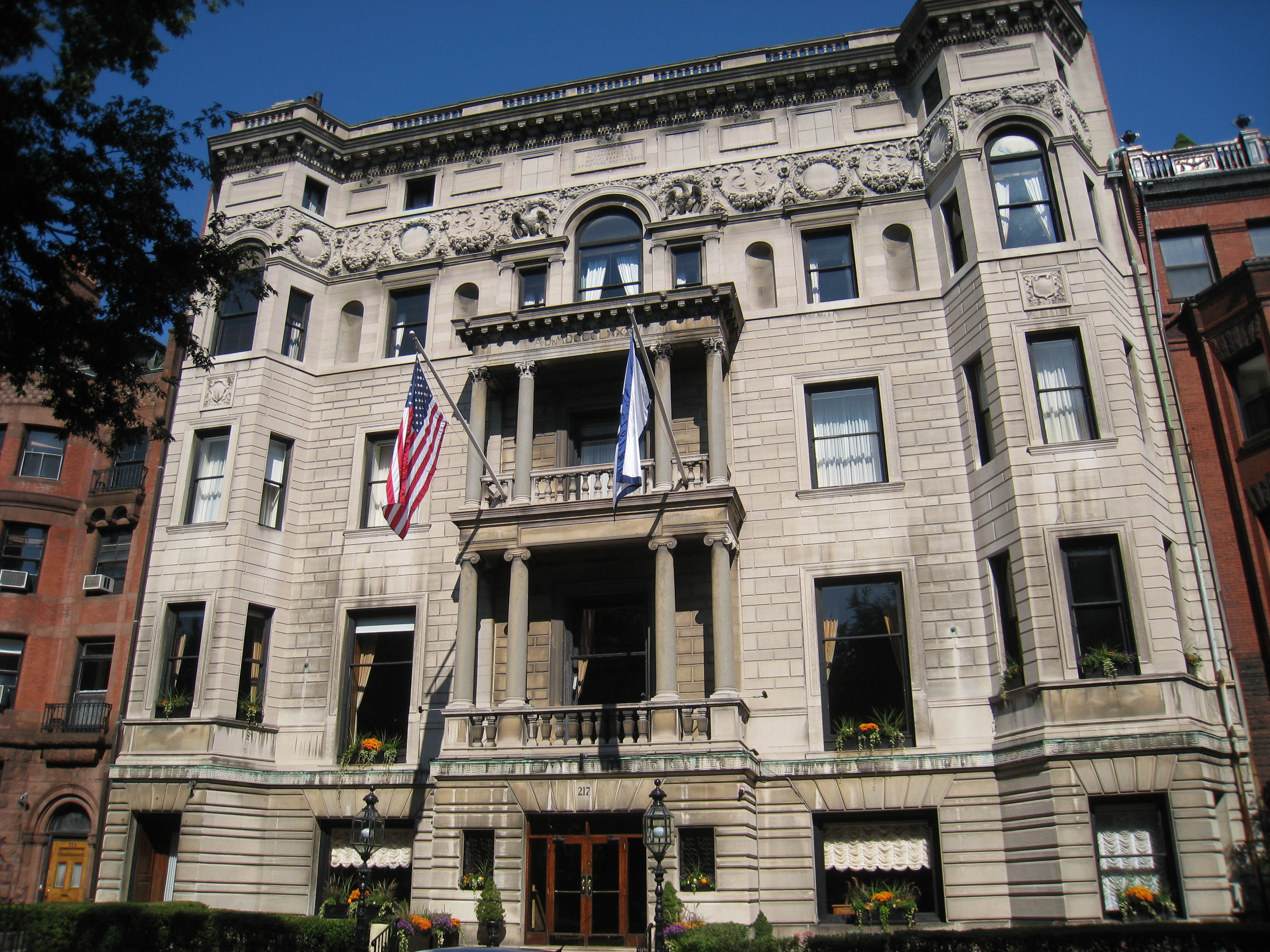 Front facade of the Algonquin Club, 217 Commonwealth Avenue, Boston, Massachusetts, USA. Designed by architects McKim, Mead & White and completed in 1888.